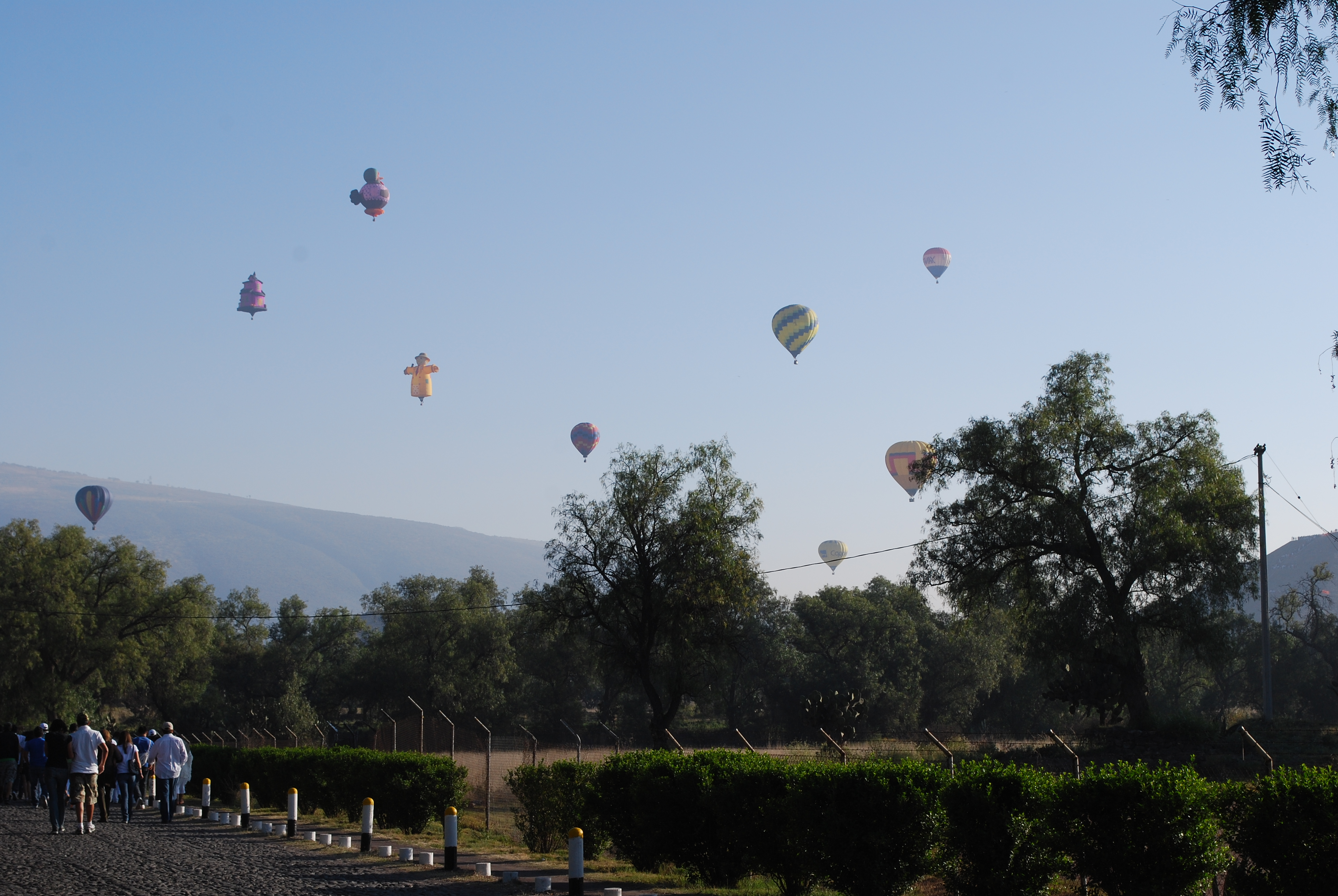 Balloons over the Teotihucan site during spring equinox 2010